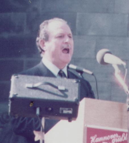 Bernard Braine in Hannover, 24 September 1983